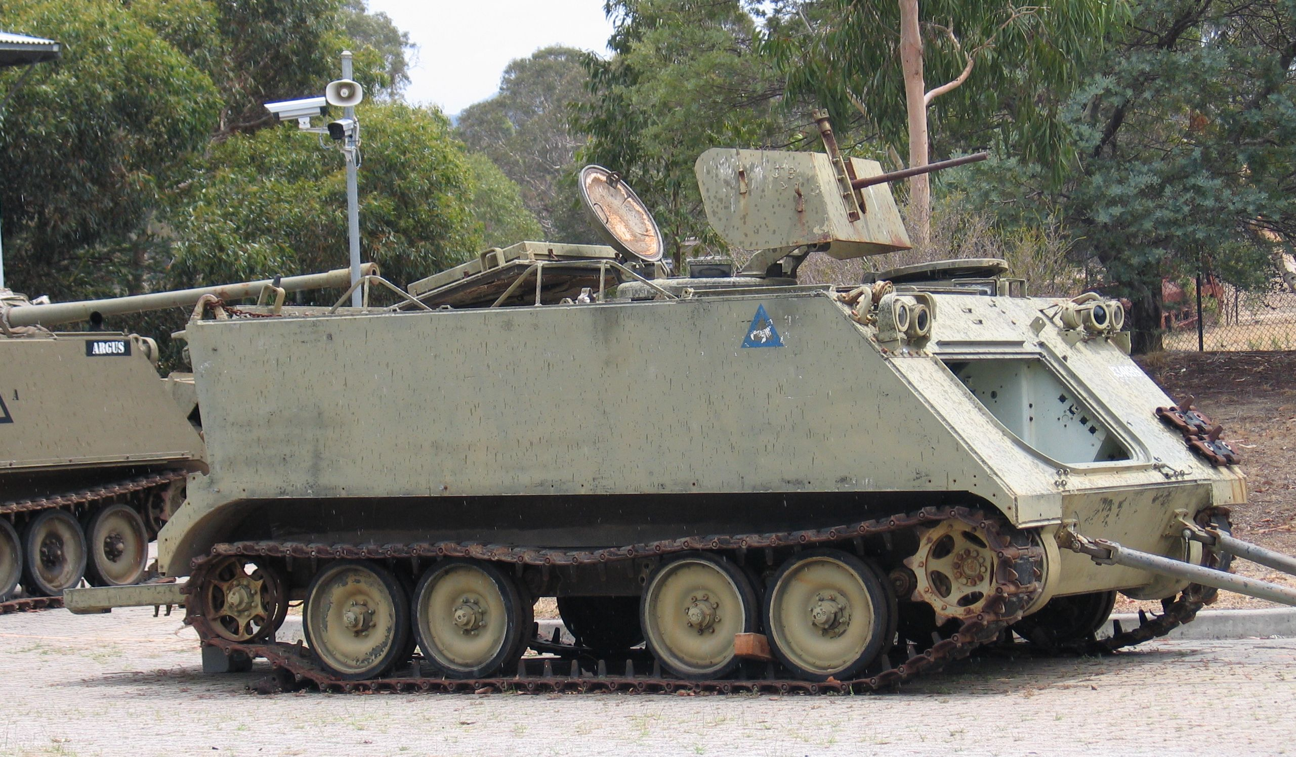 M113 APC in Royal Australian Armoured Corps Tank Museum, Puckapunyal, Australia.